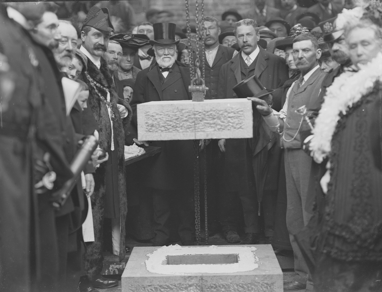 This is millionaire industrialist and library philanthropist Andrew Carnegie, pictured with assembled dignitaries for the laying of the foundation stone of Waterford Free Library at Lady Lane - one of five free libraries in Waterford that Carnegie sponsored. Carnegie had arrived in Dublin on 18 October 1903 and stayed overnight in the Gresham Hotel, before travelling to Waterford. As well as laying the foundation stone, Carnegie received the Freedom of Waterford, before moving on to Limerick and Cork to lay foundation stones for free libraries in those cities. Date: 19 October 1903 NLI Ref.: P_WP_1313